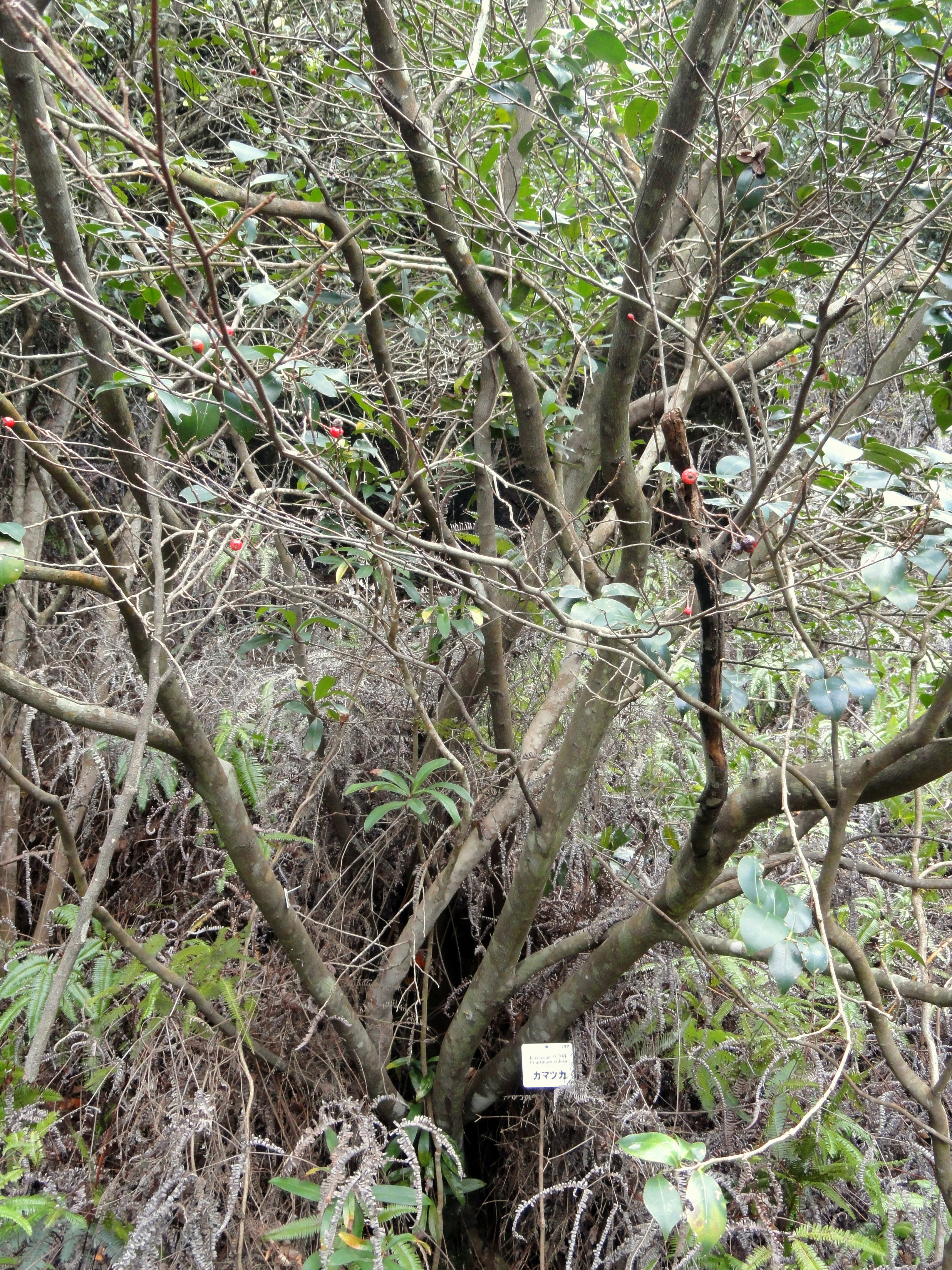 Botanical specimen in the Miyajima Natural Botanical Garden, Hatsukaichi, Hiroshima, Japan.